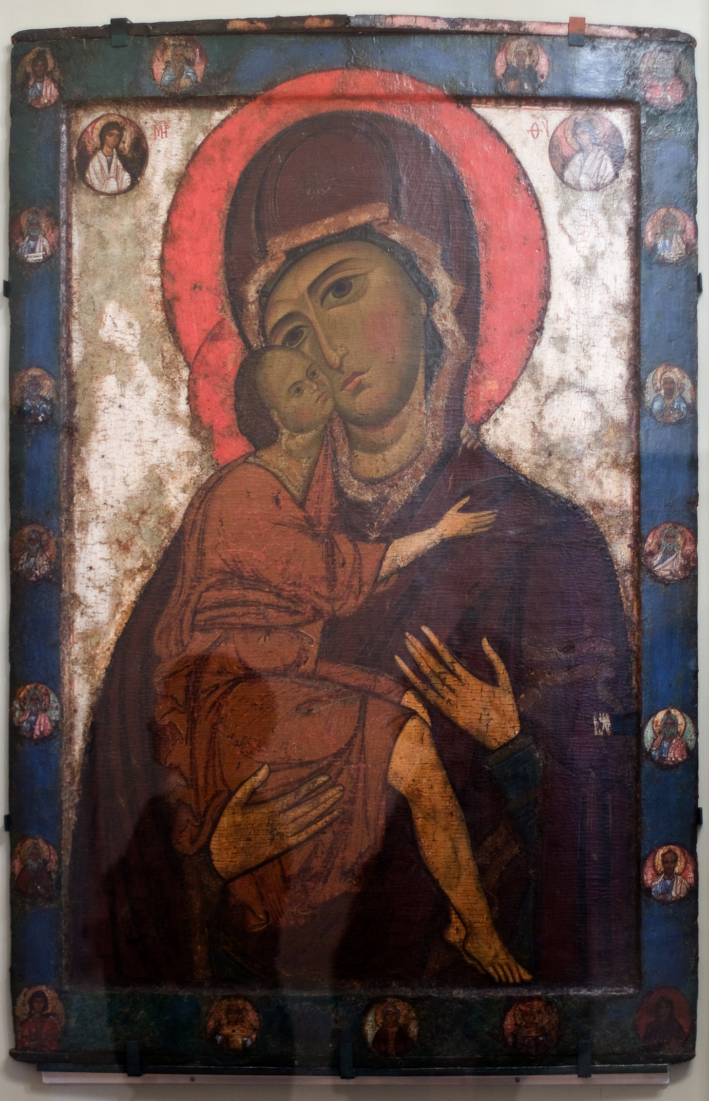 THE MOTHER OF GOD OF TENDERNESS (THE MOTHER OF GOD OF BELOZERSK). First half of the 13th Century From the Cathedral of the Transfiguration, Belozersk. Russian Museum